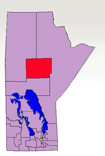 The 1998-2011 boundaries for the Thompson electoral district highlighted in red